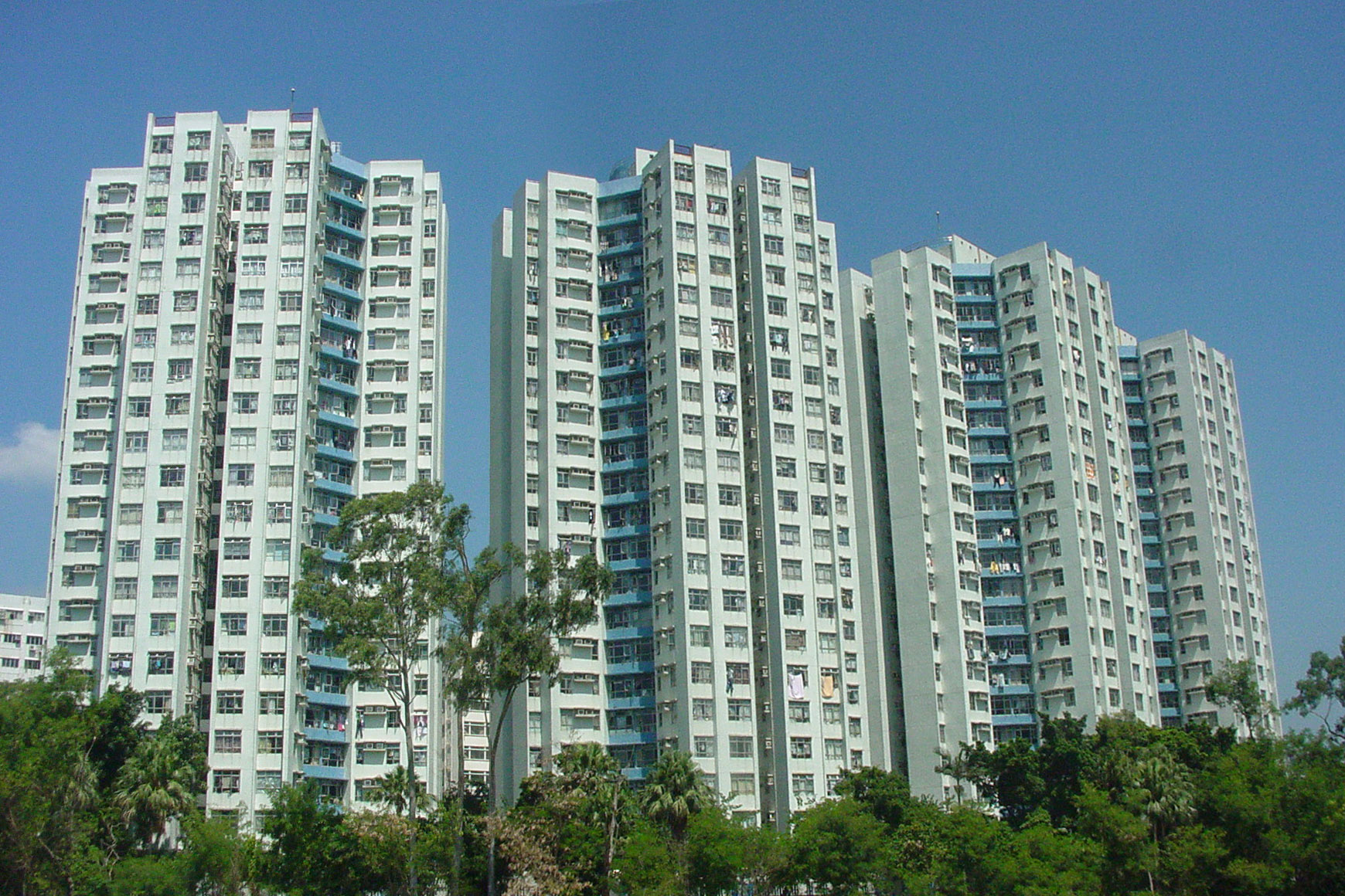 The appearance of Man Lai Court, Tai Wai, Sha Tin, Hong Kong.